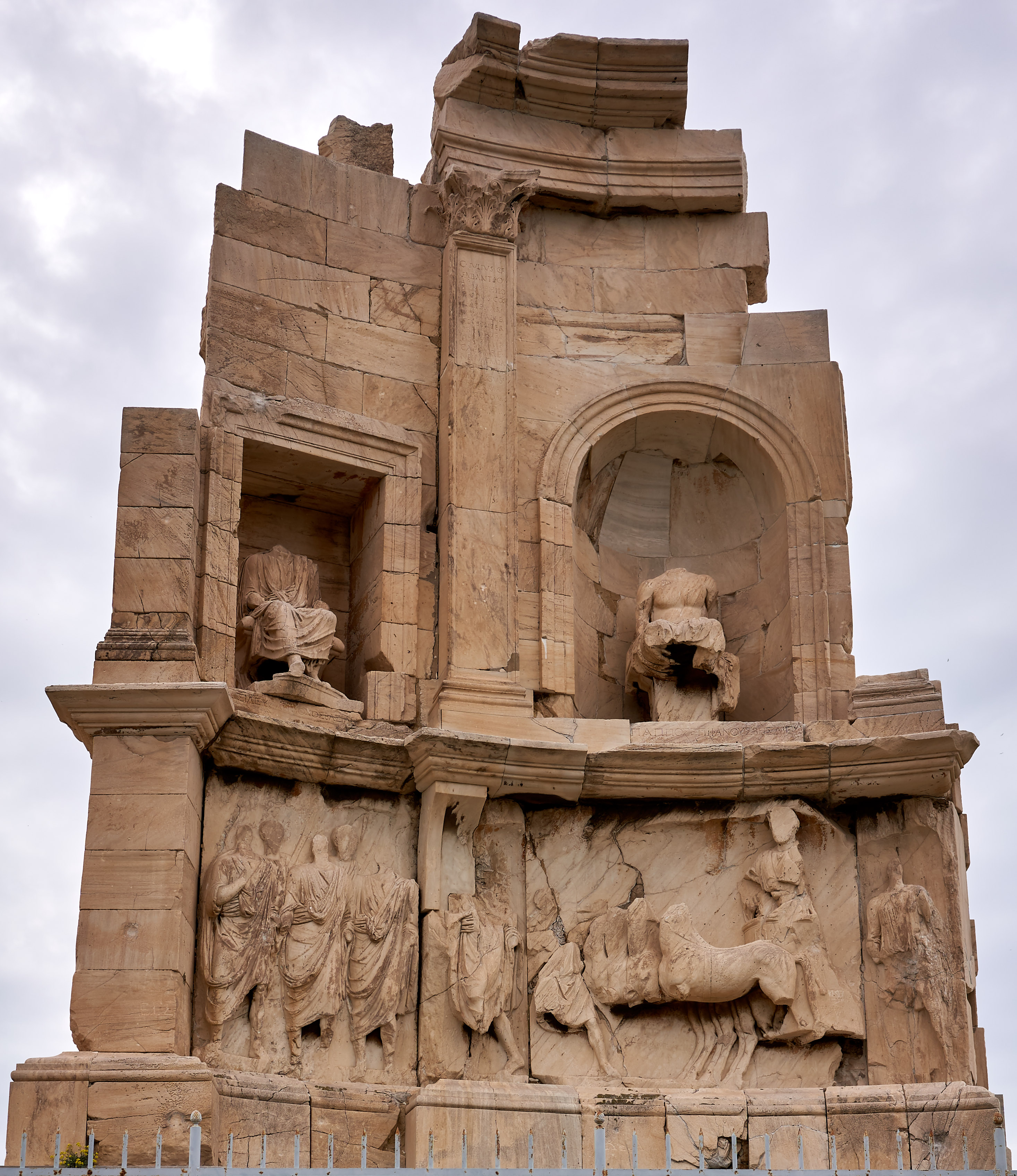 The upper and lower part of the Philopappos Monument sculpture reliefs. Athens, Greece.